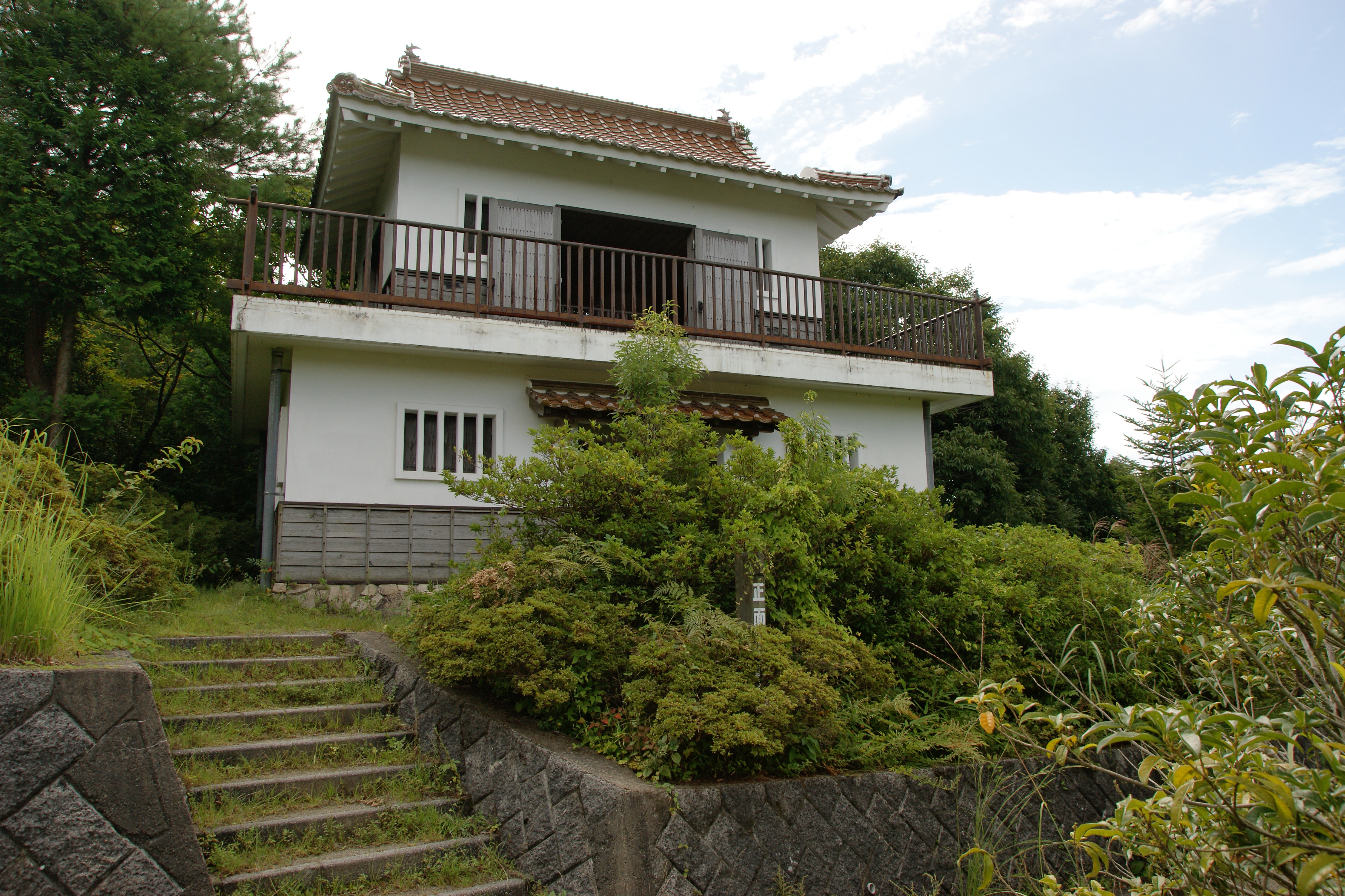 Utsubuki Park in Kurayoshi, Tottori prefecture, Japan